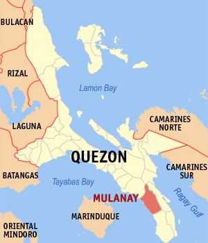 Map of Quezon showing the location of Mulanay